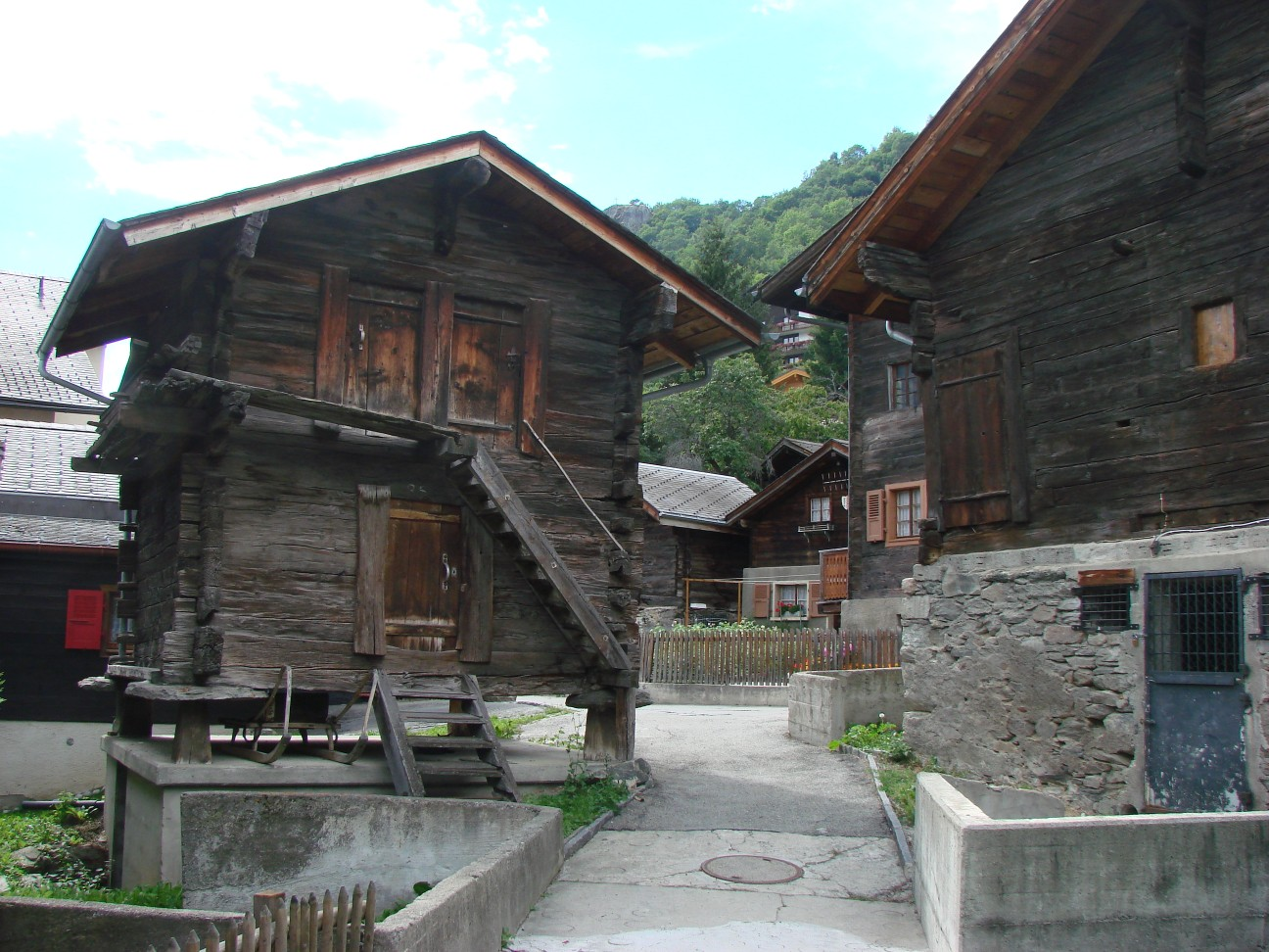 typical silo from Valais